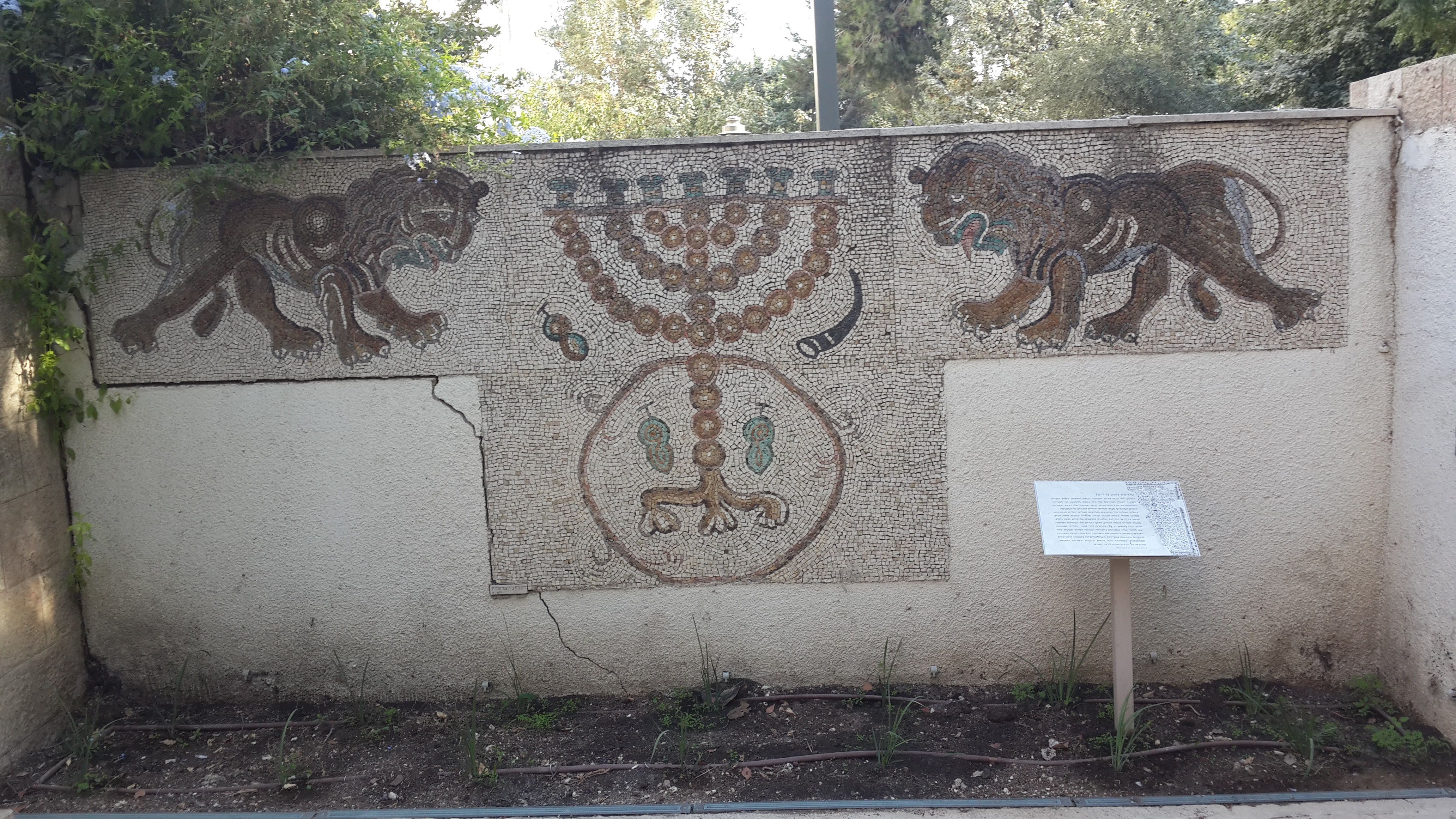 A copy of part of Mosaic in Maon synagogue at former president house by Naomi Henrik.